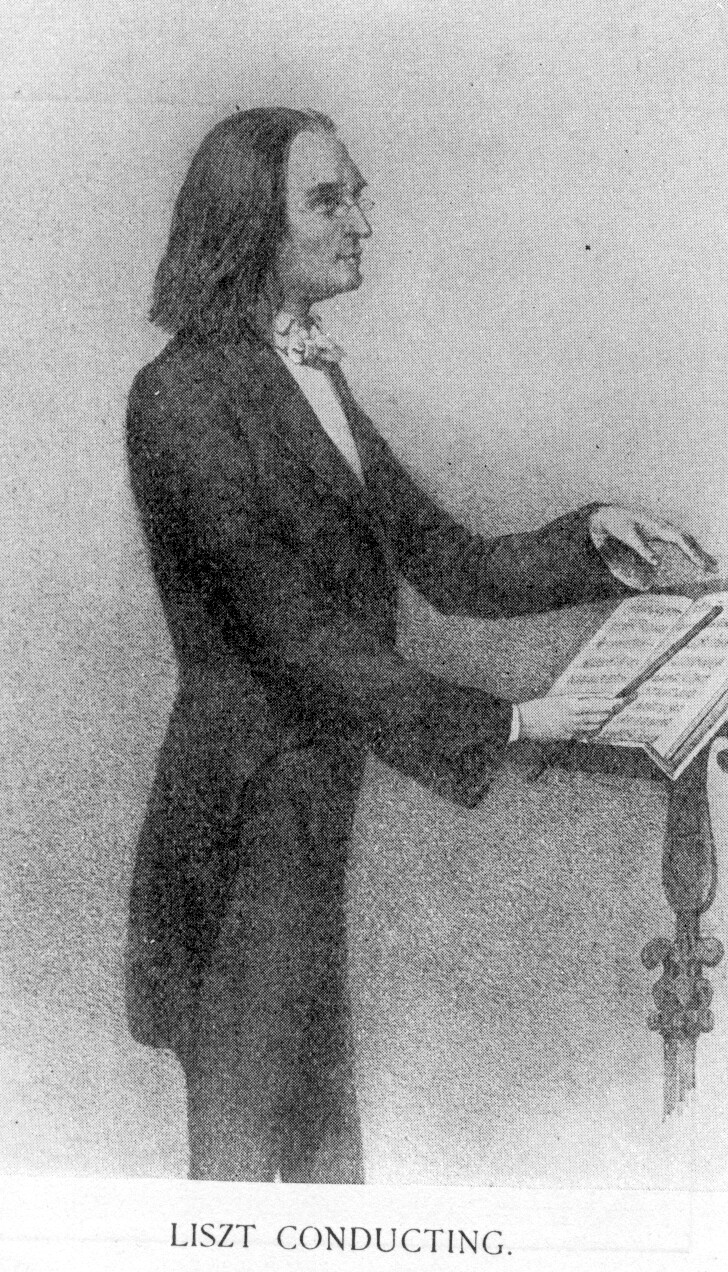 Conducting at Weimar, 1850